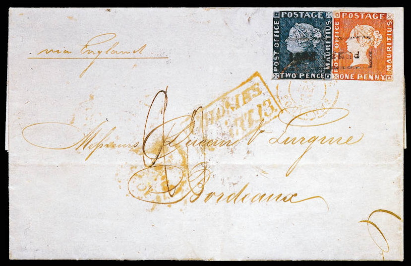 This is an illustration of the unique “Bordeaux Cover”, or “Bordeaux Letter”, which has both of the Post Office Mauritius stamps.